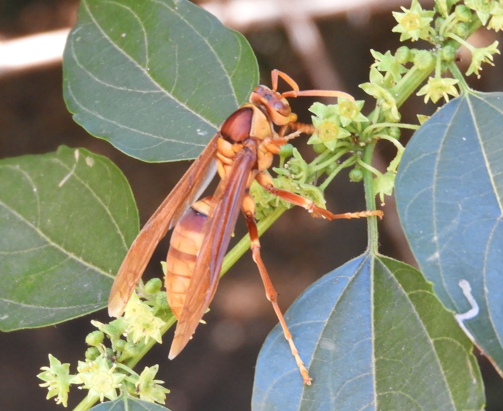 Polistes carnifex ssp. carnifex - in situ feeding on an Urticacae (?) in Mazatlán, Sinaloa, Mexico on 21 November 2018 at 2:52 PM photographed by Francisco Farriols Sarabia